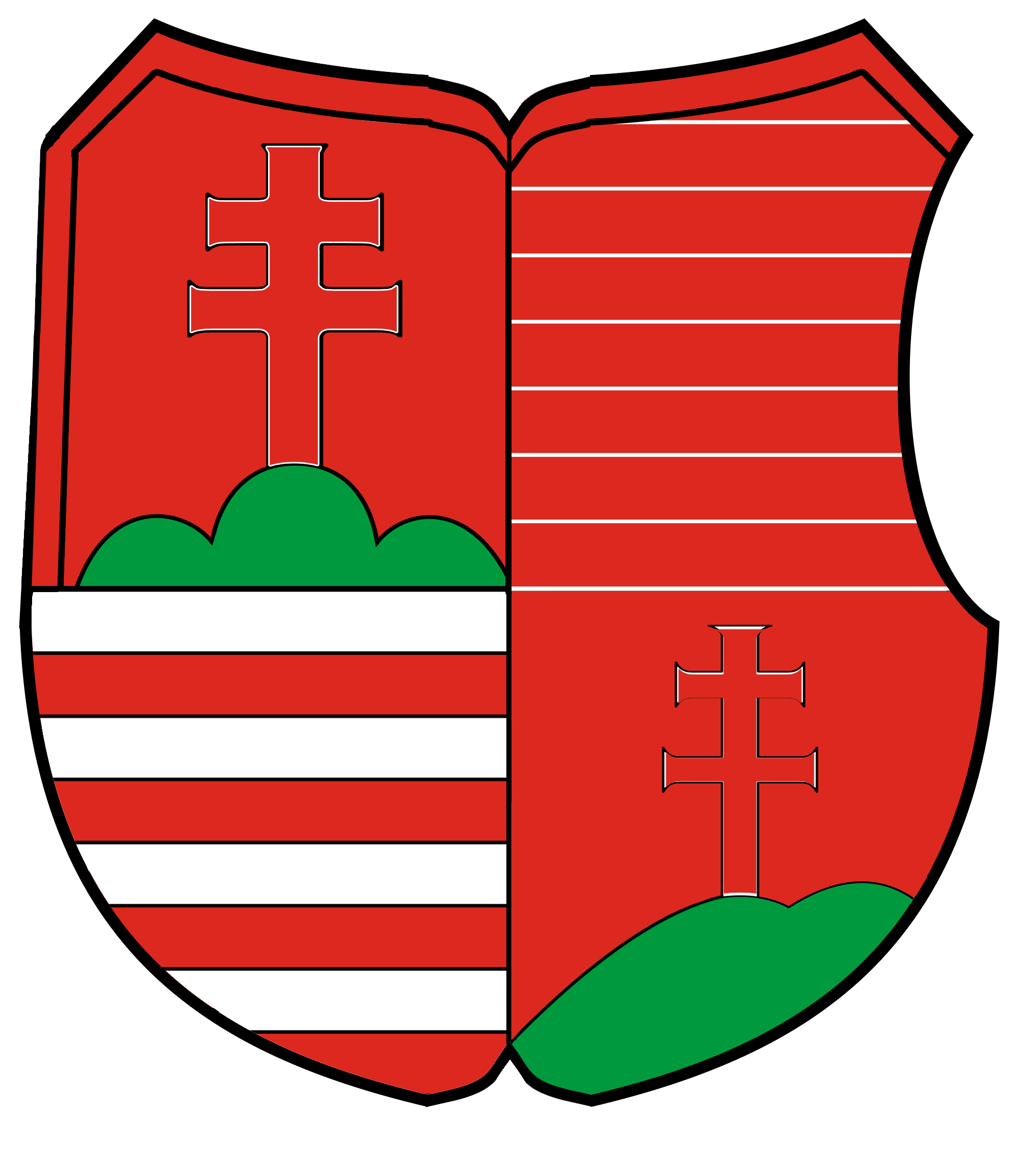 Coat of arms of Vladislaus II of Bohemia and Hungary (1490–1516).